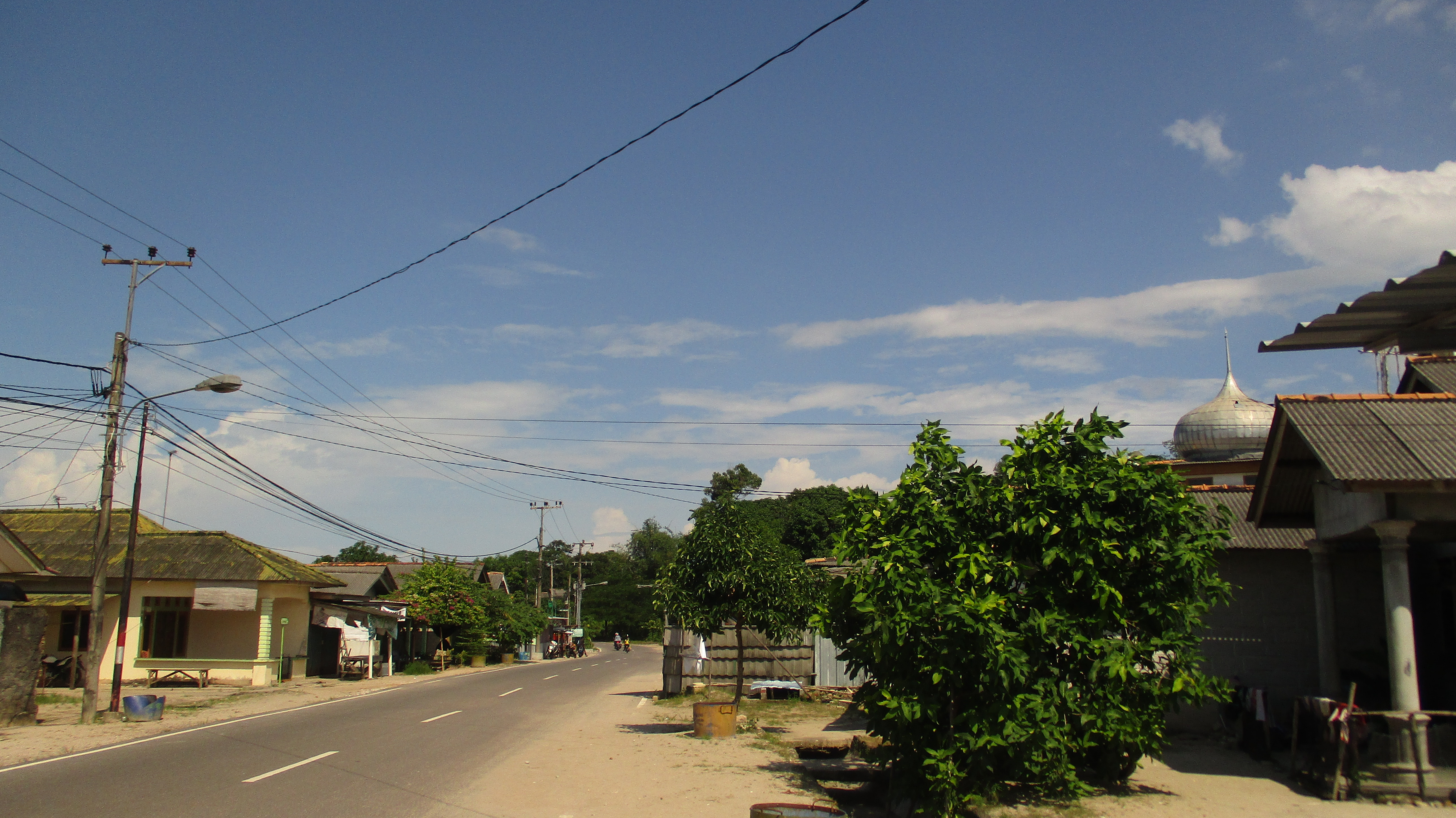 Batu Belubang Village, Pangkalan Baru, Central Bangka